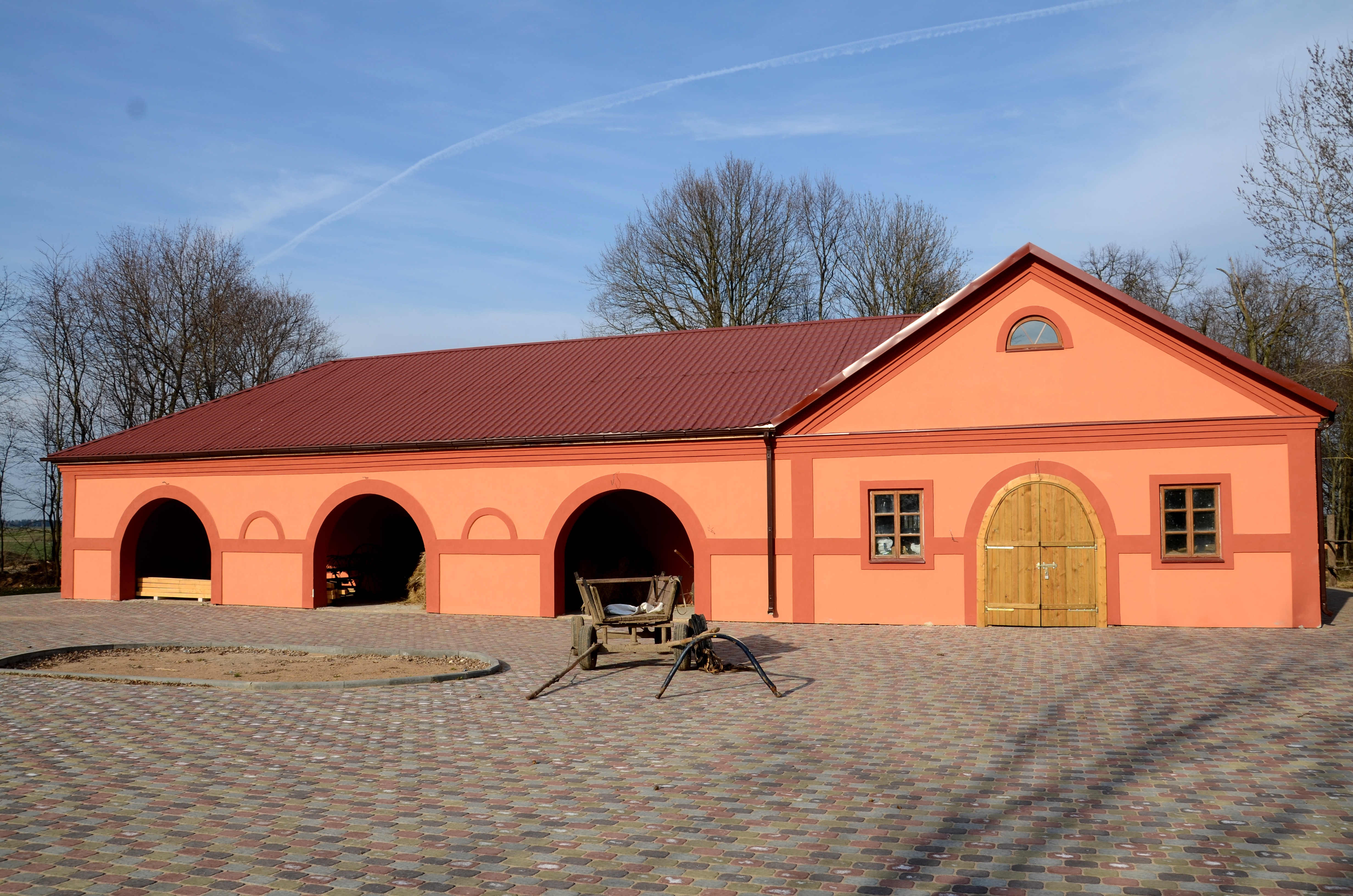 Stable in Palace of Hartings in Dukora, Pukhavichy district, Minsk province